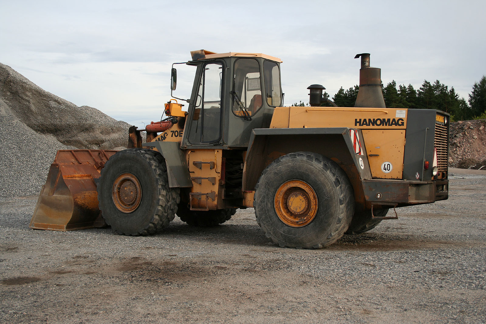 A Hanomag front loader near Turku Airport.